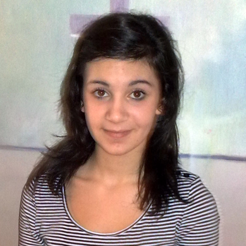 Lina Leandersson at Arjeplog's Film Festival, 2009